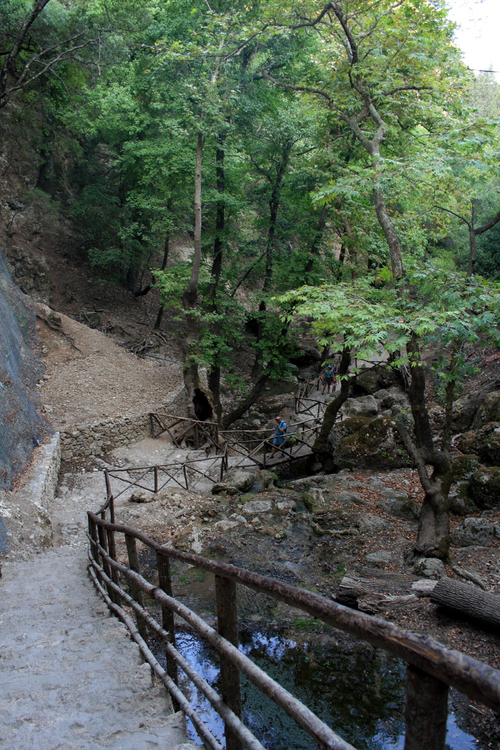 Petaloudes, Valley of Butteflies Petaloudes, Údolí motýlů Date=August 2007 Author= Karelj